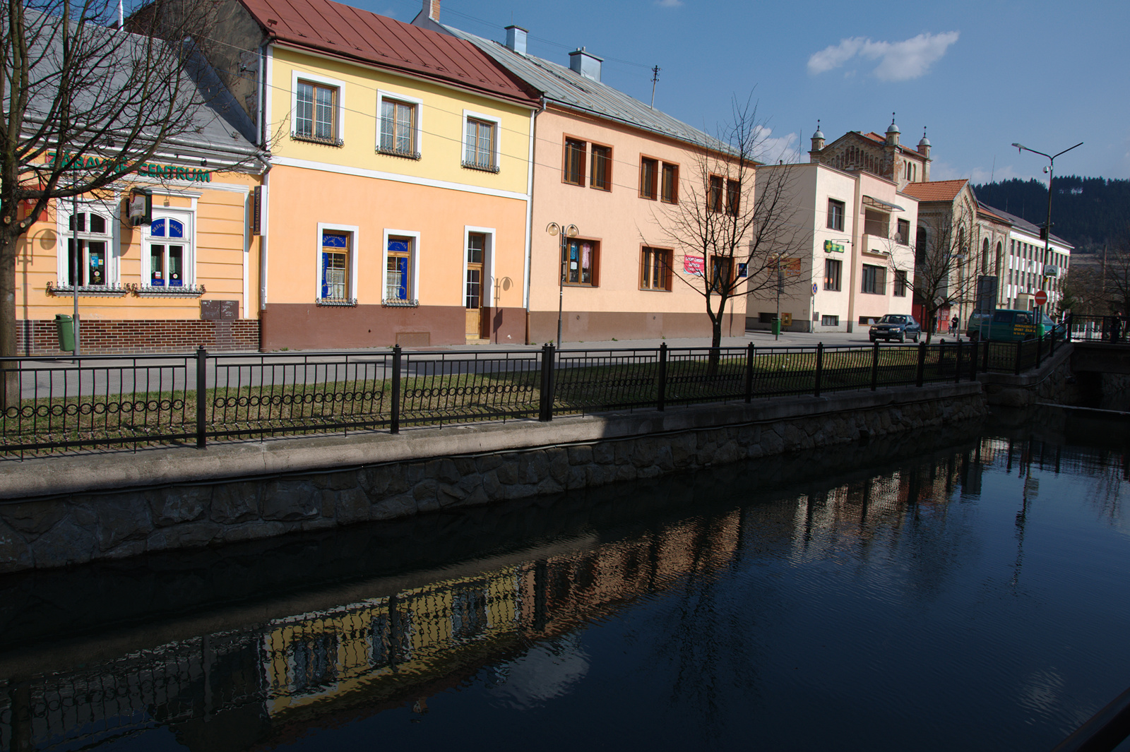 Bytča, Slovakia.